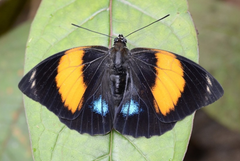 The neotropical butterfly Prepona amydon (Agrias amydon) from Chuchubi, Esmeraldas, Ecuador; fev 27, 2016.